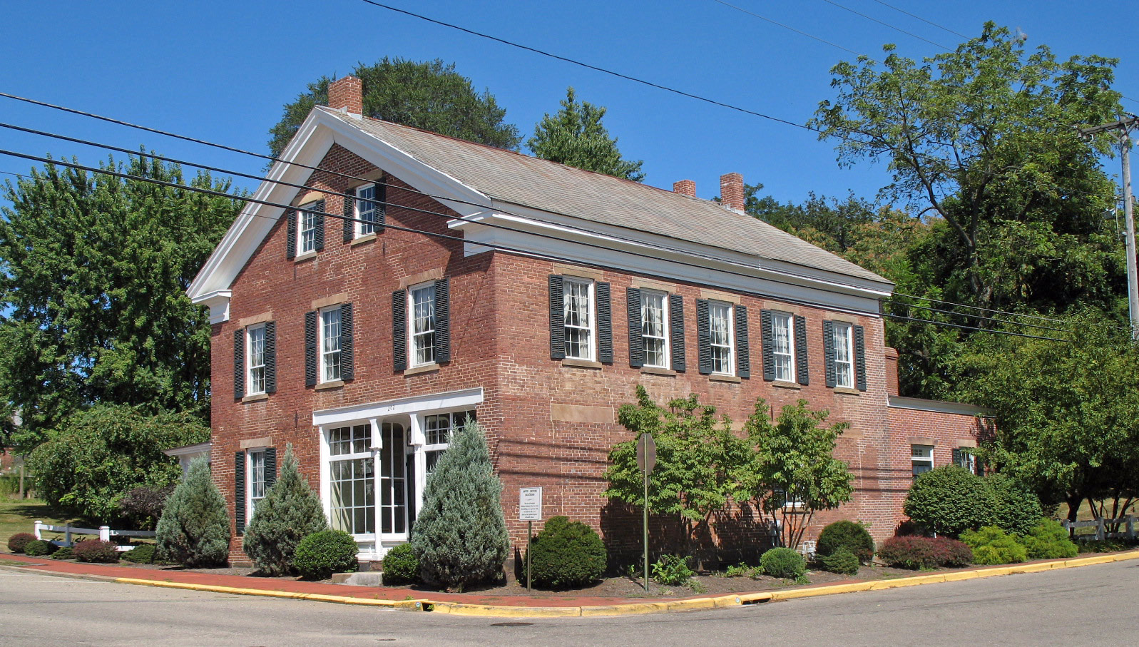 Registered Historic Places in Stark County, Ohio. Loew-Define Grocery Store and Home, 202 Market St. NE, Navarre, Ohio, USA. The site of U.S. President William McKinley's first law trial. Photographed 2008-08-26 from the southwest corner of Market Ave. S and Maple St. NE.